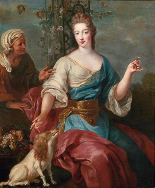 Portrait of a Princess, So-called Princess Anne Charlotte of Lorraine (1714-1773)